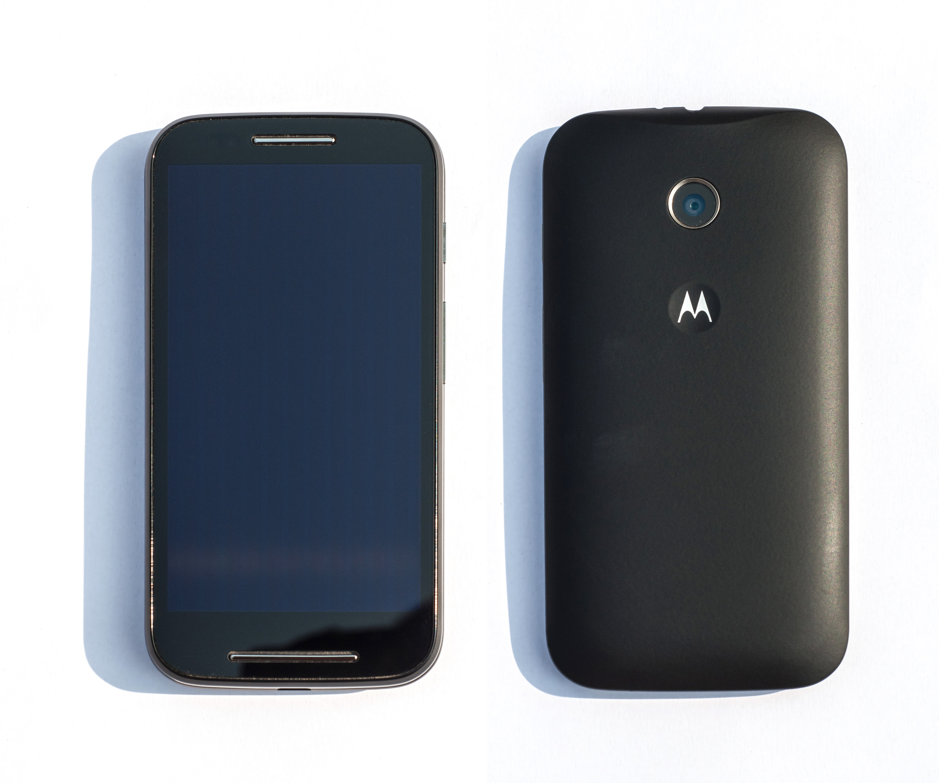 Motorola Moto E android mobile phone.